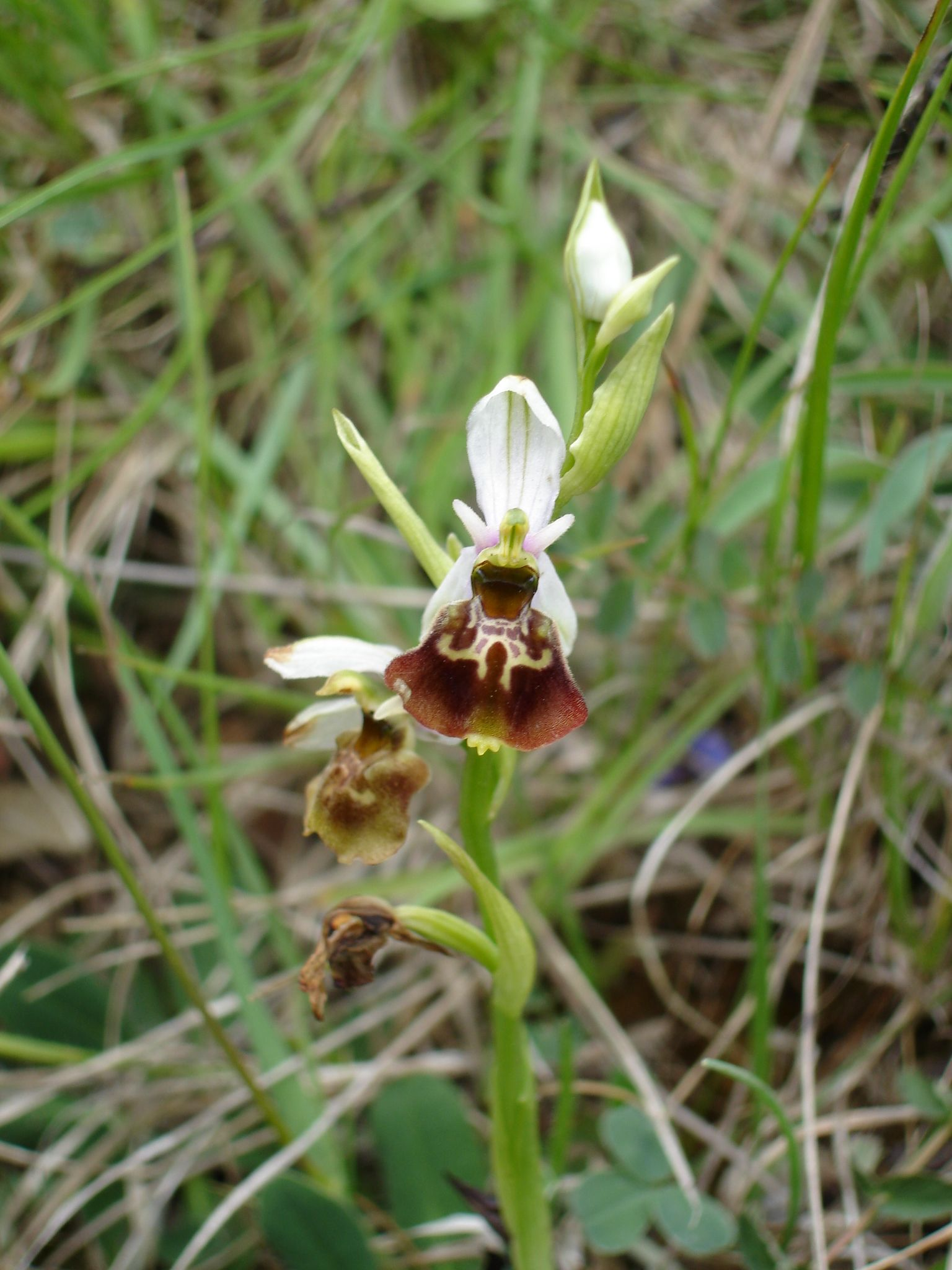 Ophrys holoserica, Hummel-Ragwurz